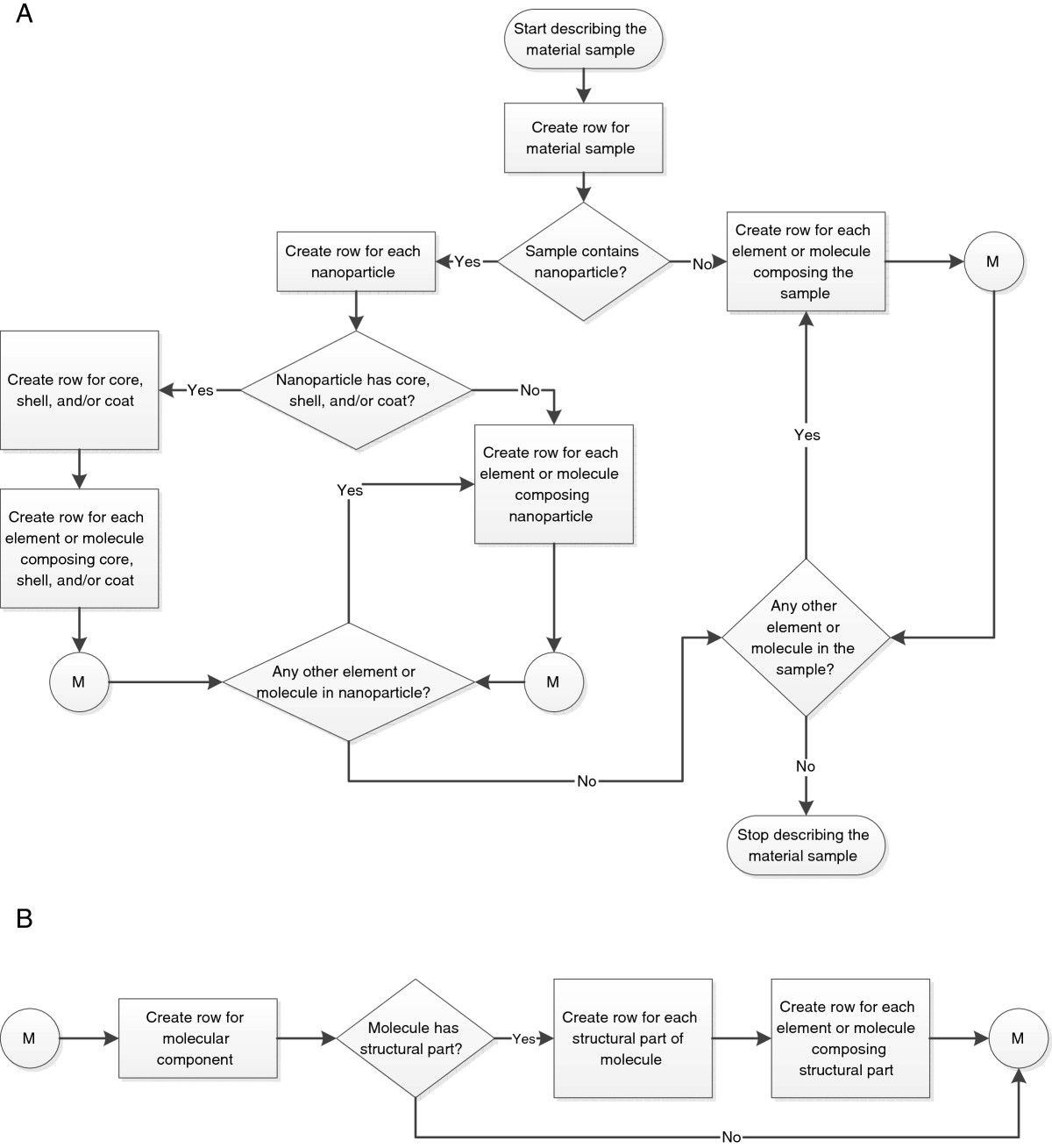 Flowchart depicting the ways to identify different components of a material sample, and to guide the creation of rows for each component in the ISA-TAB-Nano Material file. (A) The overall ISA-TAB-Nano file creation process which includes (B) the creation of molecular component entries.